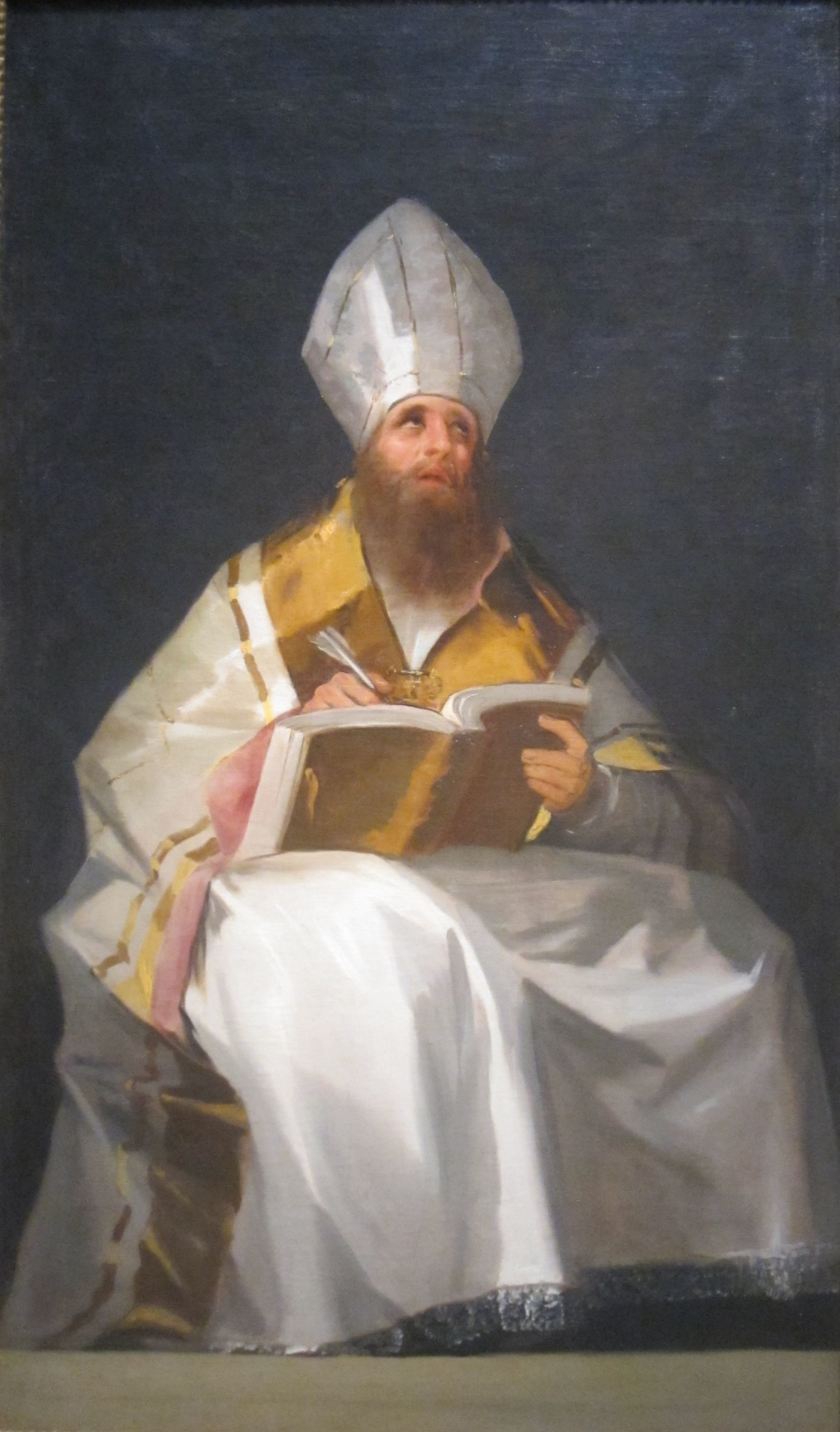 Saint Ambrose, oil on canvas painting by Francisco de Goya, c. 1796-99, Cleveland Museum of Art